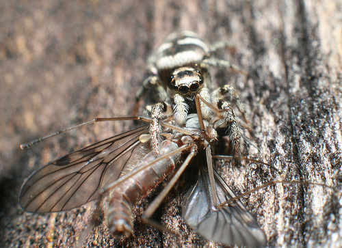 Hunting Salticus Scenicus